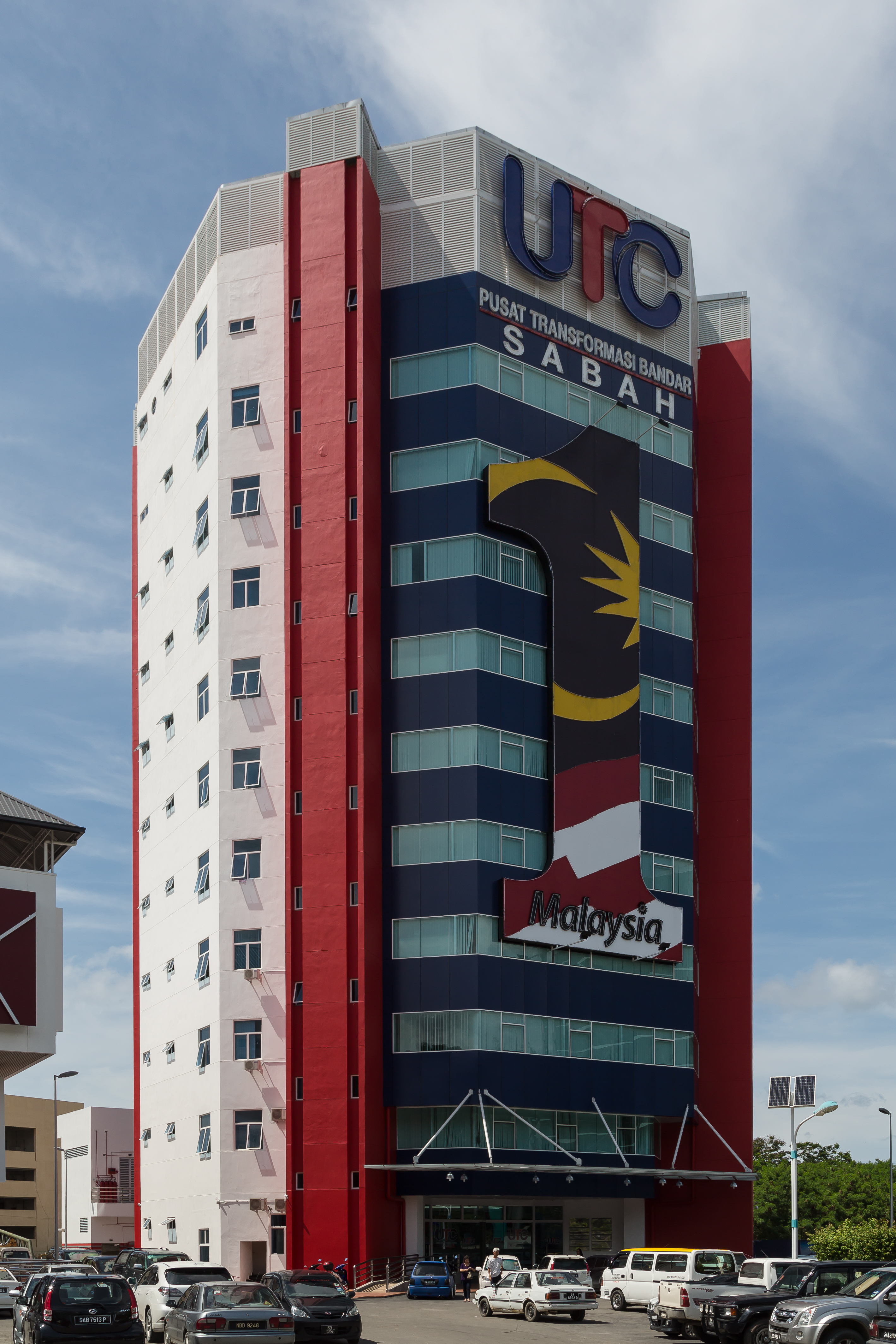 Kota Kinabalu, Sabah: UTC Tower (Urban Transformation Centre); Pusat Transormasi Bandar